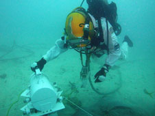 Steve Squyres, Goldwin Smith Professor of Astronomy at Cornell University, performing an EVA during the NASA-NOAA NEEMO 15 underwater exploration mission in October 2011, simulating the manner in which an astronaut might traverse an asteroid surface using translation lines.